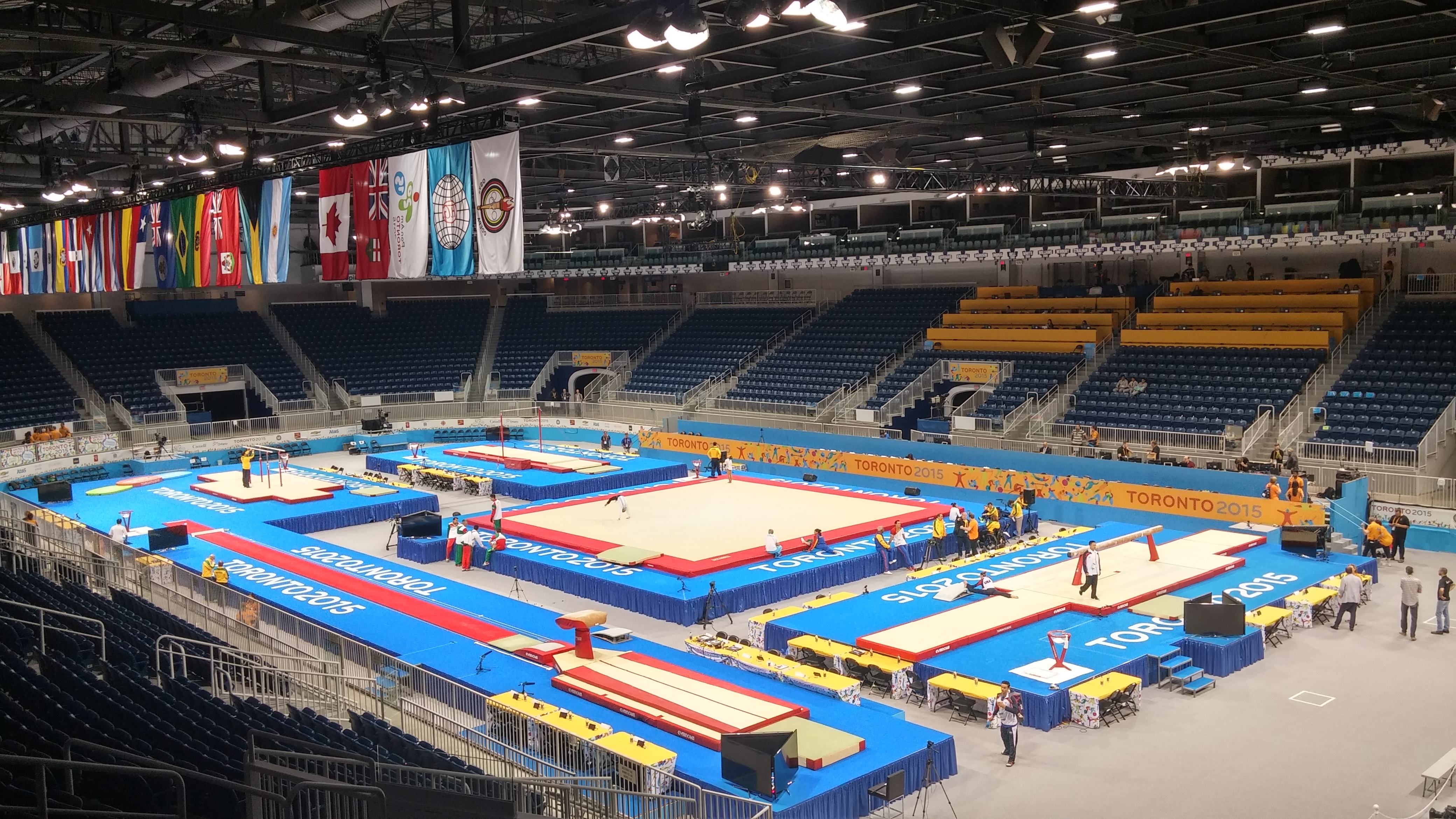 Toronto Coliseum during the 2015 Pan American Games on July 15.